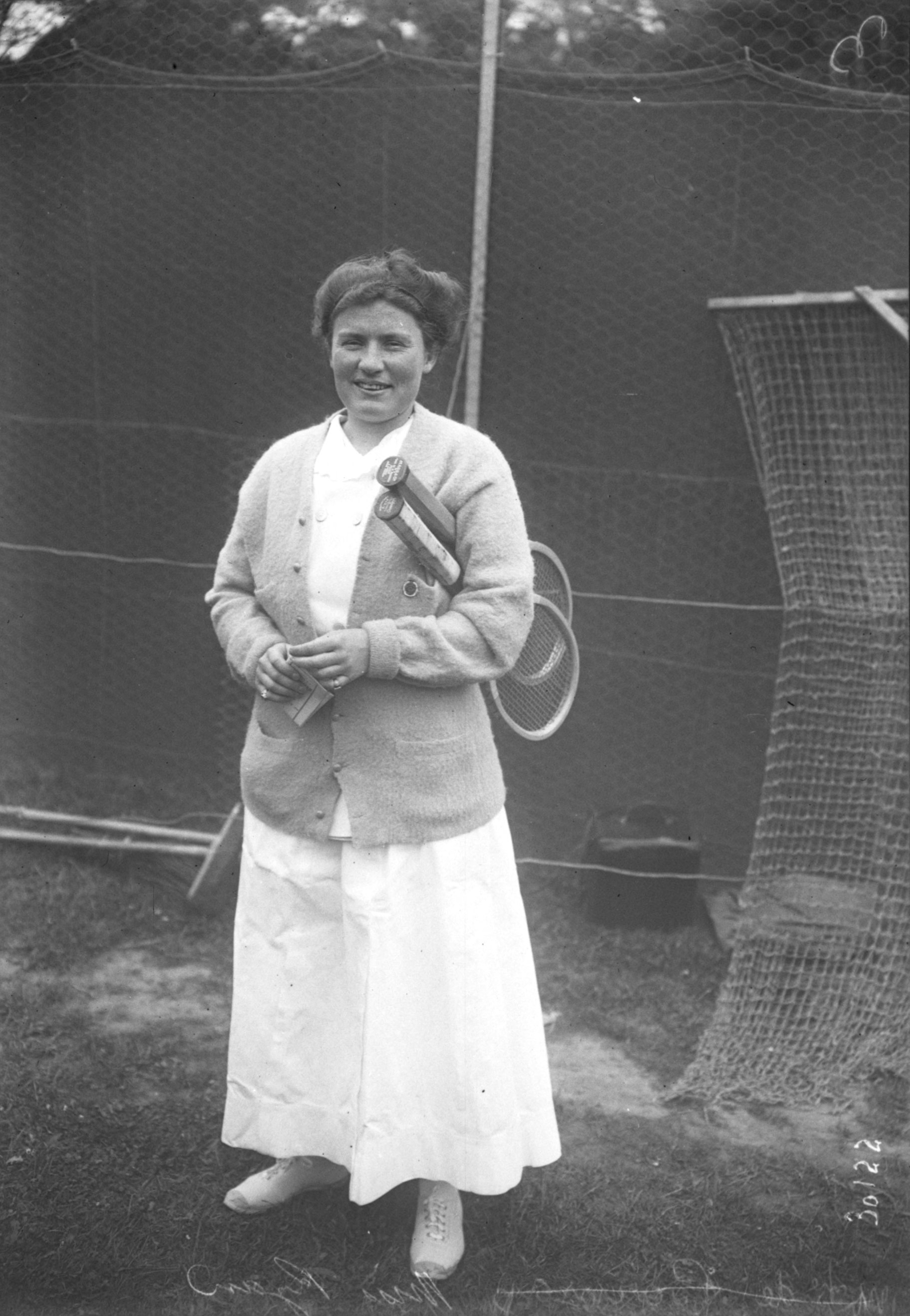 American tennis player Elizabeth Ryan at the 1913 World Hard Court Championship (WHCC)